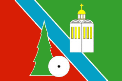 Flag of Koryazhma, Arkhangelsk oblast, Russia